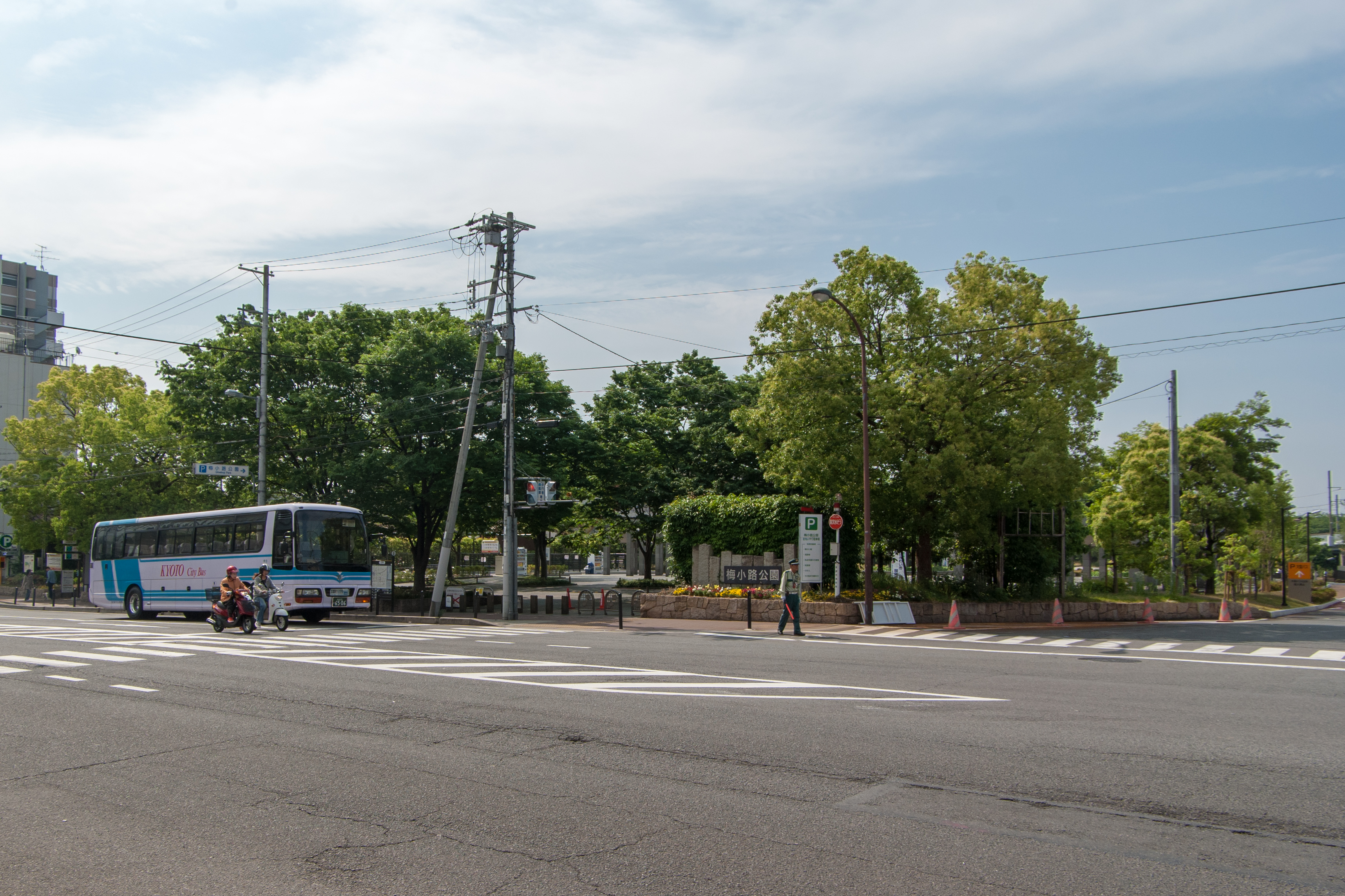 Photograph of Shichijo Entrance of Umekoji Park in Shimogyo-ku, Kyoto, Kyoto Prefecture, Japan.